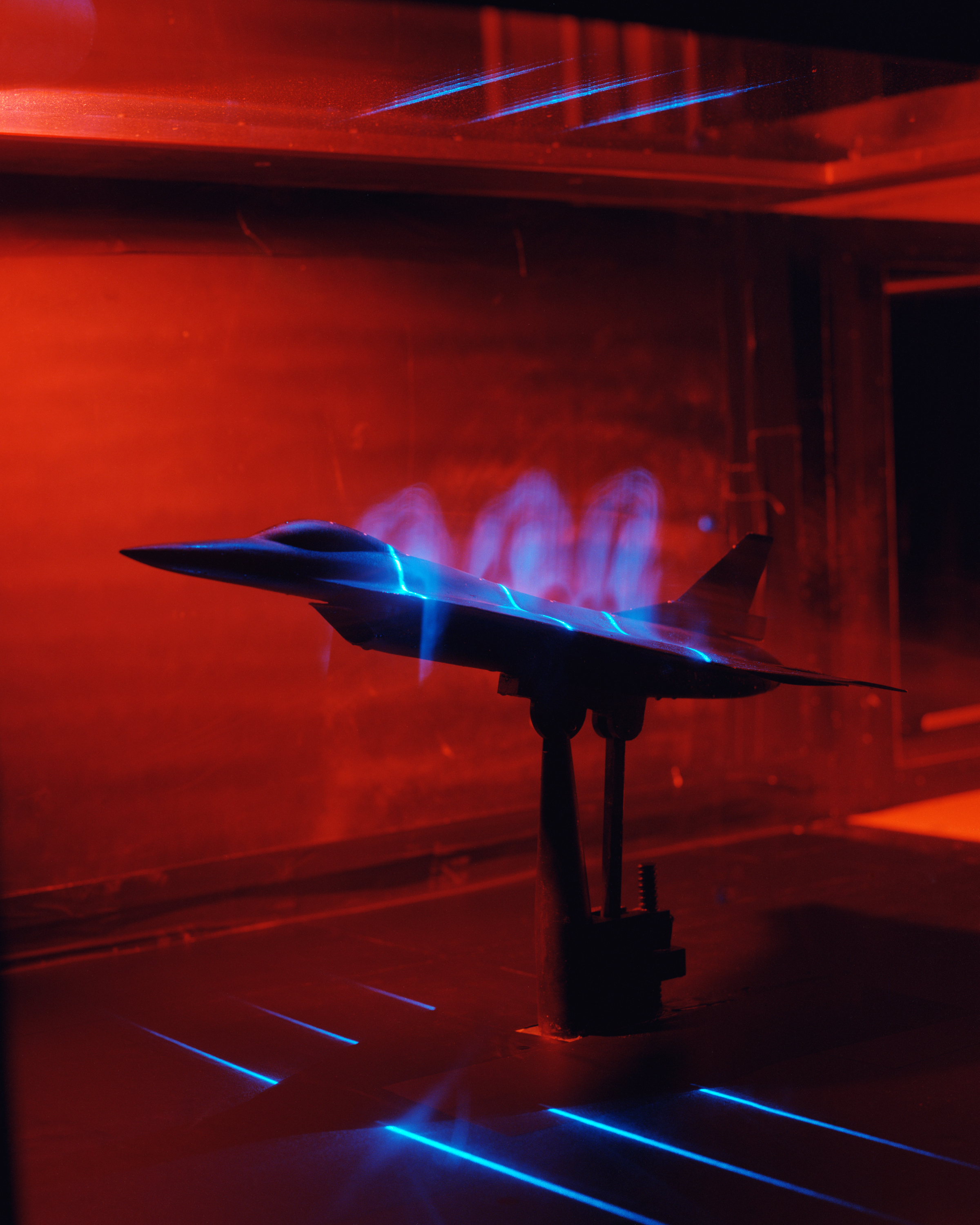 An F-16 SCAMP model at 4% scale being tested in the NASA Basic Aerodynamics Research Tunnel (Facility 1214) at the Langley Research Center. Photo shows a basic flow visualization test using smoke flowing with the air, and three laser light sheets to illuminate it above the model. This experiment highlights vortices trailing from the leading-edge and was part of the NASA High Speed Research Program.